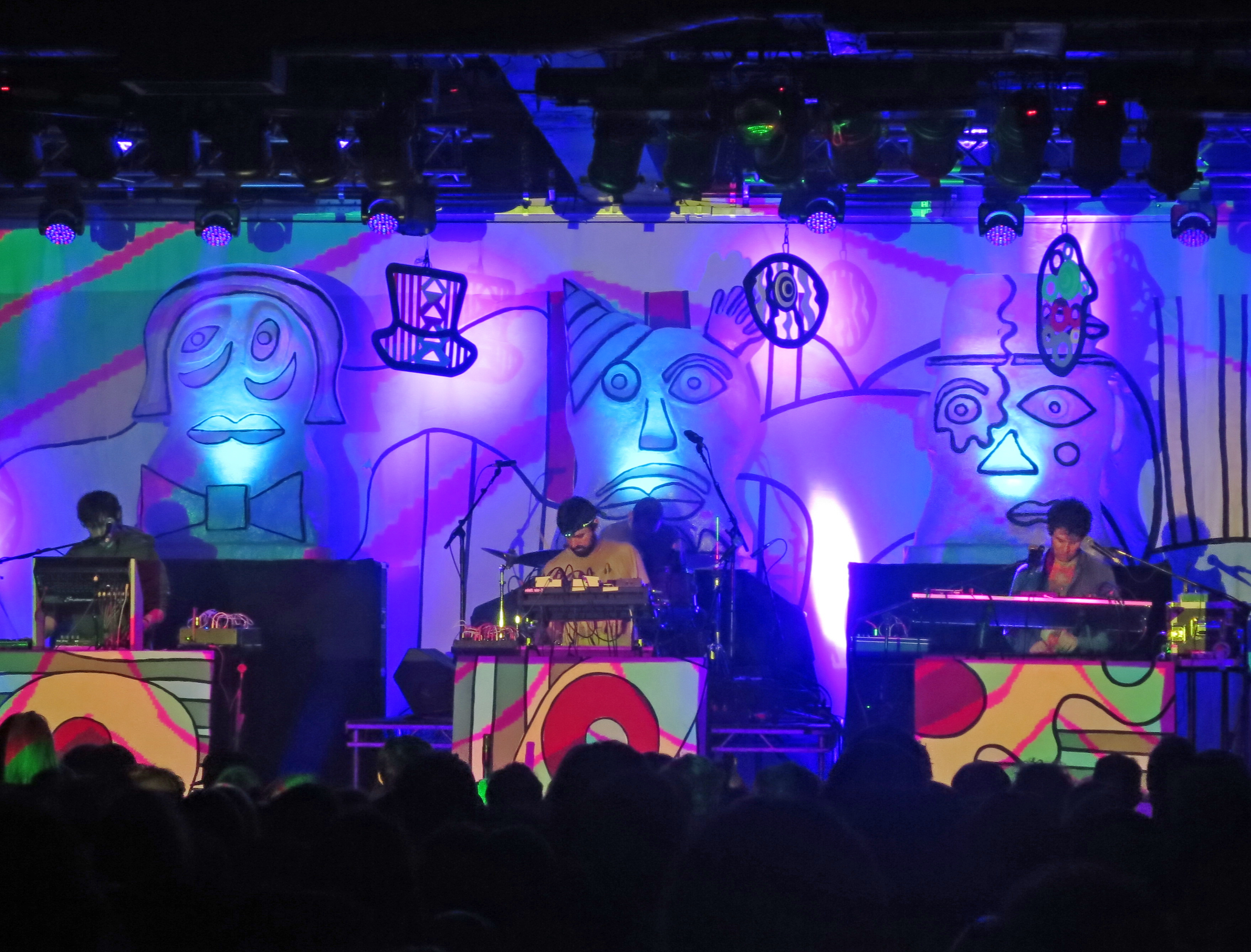 Animal Collective @ The Concord, Chicago 2/27/2016